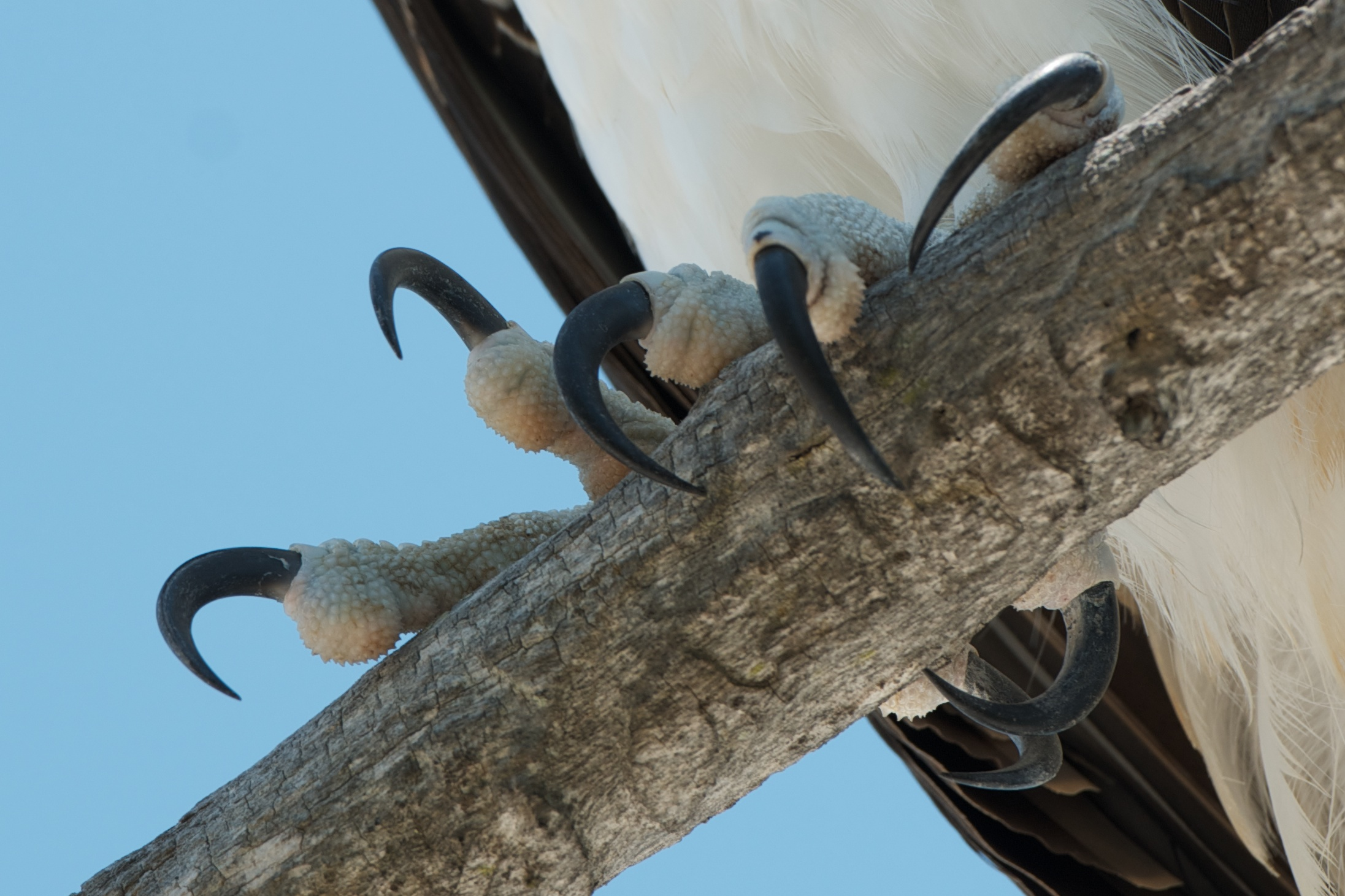 The feet of a juvenile Osprey perching in a tree in Sanibel Island, Florida, USA.